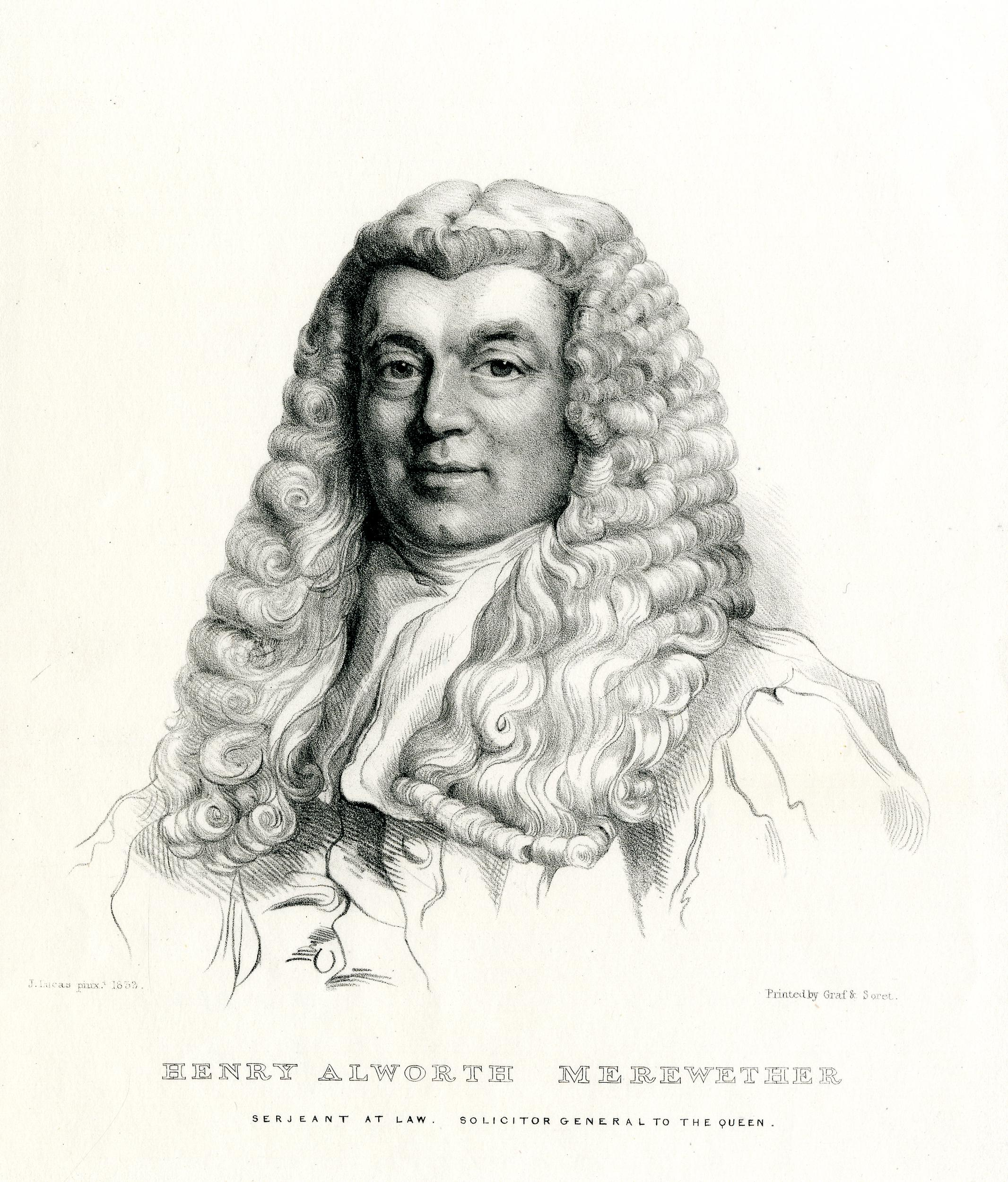 Portrait, head and shoulders to left, looking towards the viewer, in wig, bands and gown; after Lucas. Lithograph